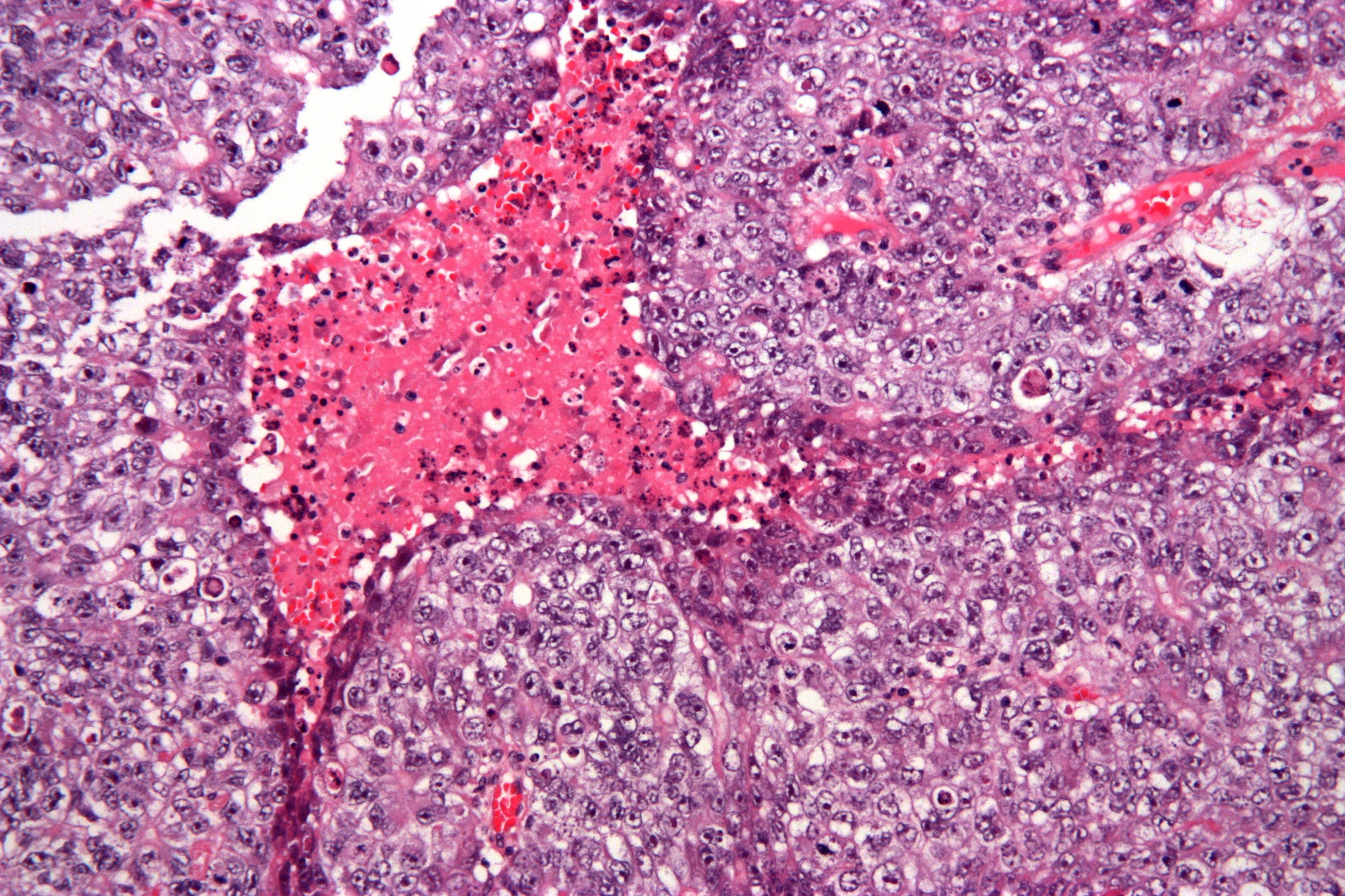 High magnification micrograph of an embryonal carcinoma, a type of germ cell tumour. H&E stain. Main features: Nuclear atypia. Nucleoli prominent. Necrosis common. Nuclei overlap. Other features: Variable architecture: Tubulopapillary. Glandular. Solid. Embryoid bodies - ball of cells in surrounded by empty space on three sides. Mitoses common. Related images High mag. Very high mag. Very high mag. (cropped)